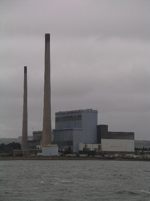 Tarbert Power Station. Oil Power station